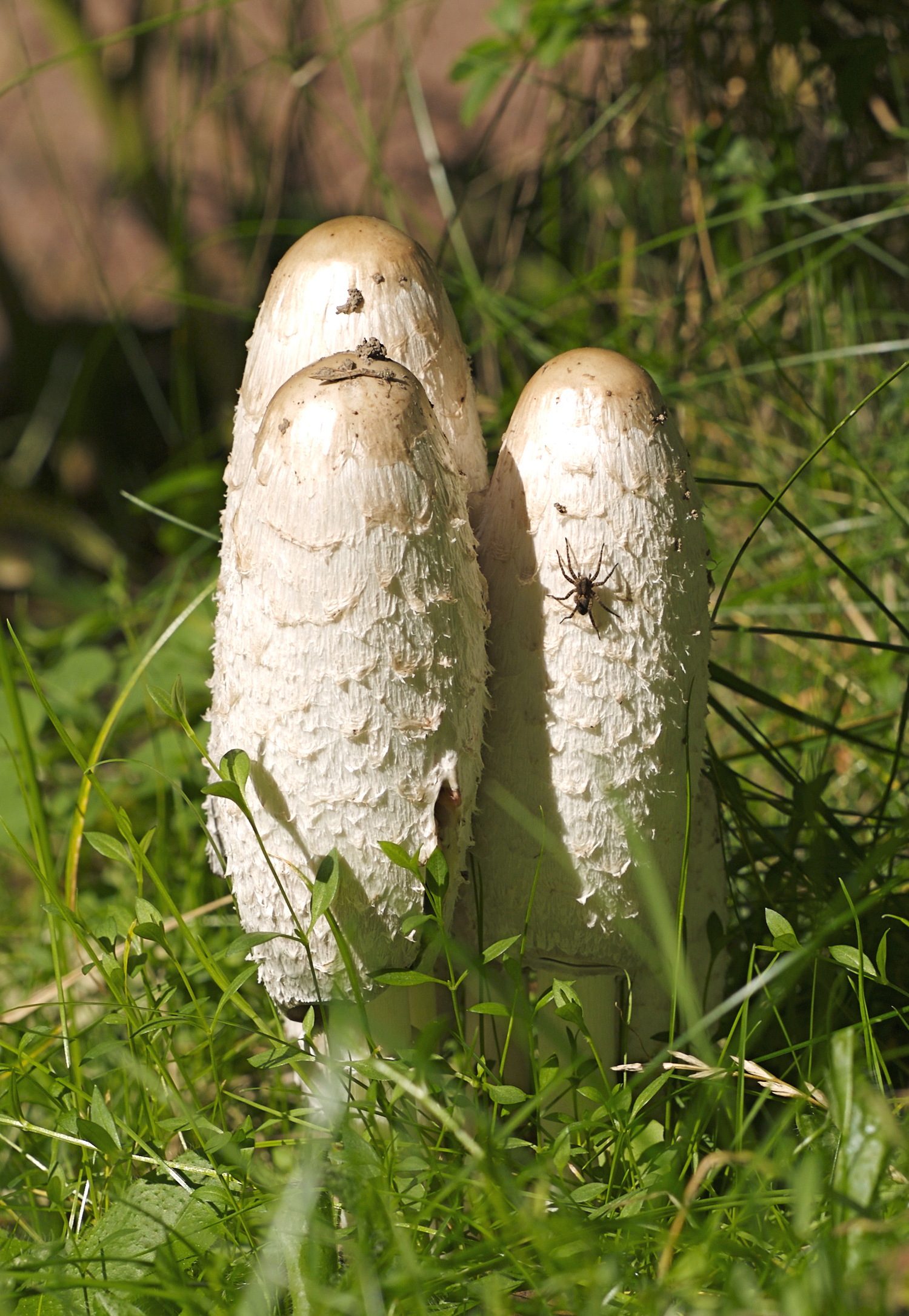 Shaggy Ink Cap (Coprinus comatus), Chemnitz, Germany